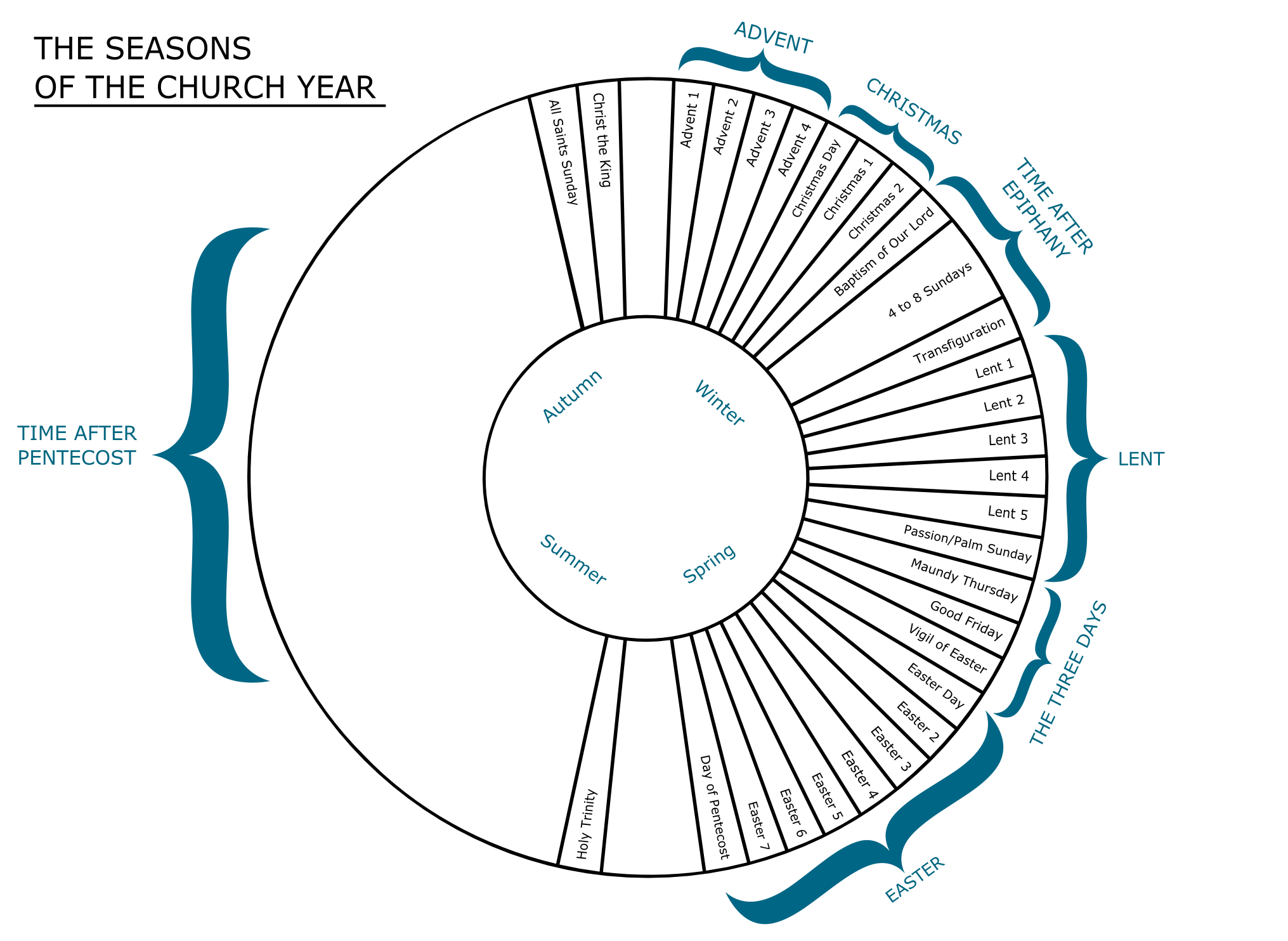 The Seasons of the Church Year